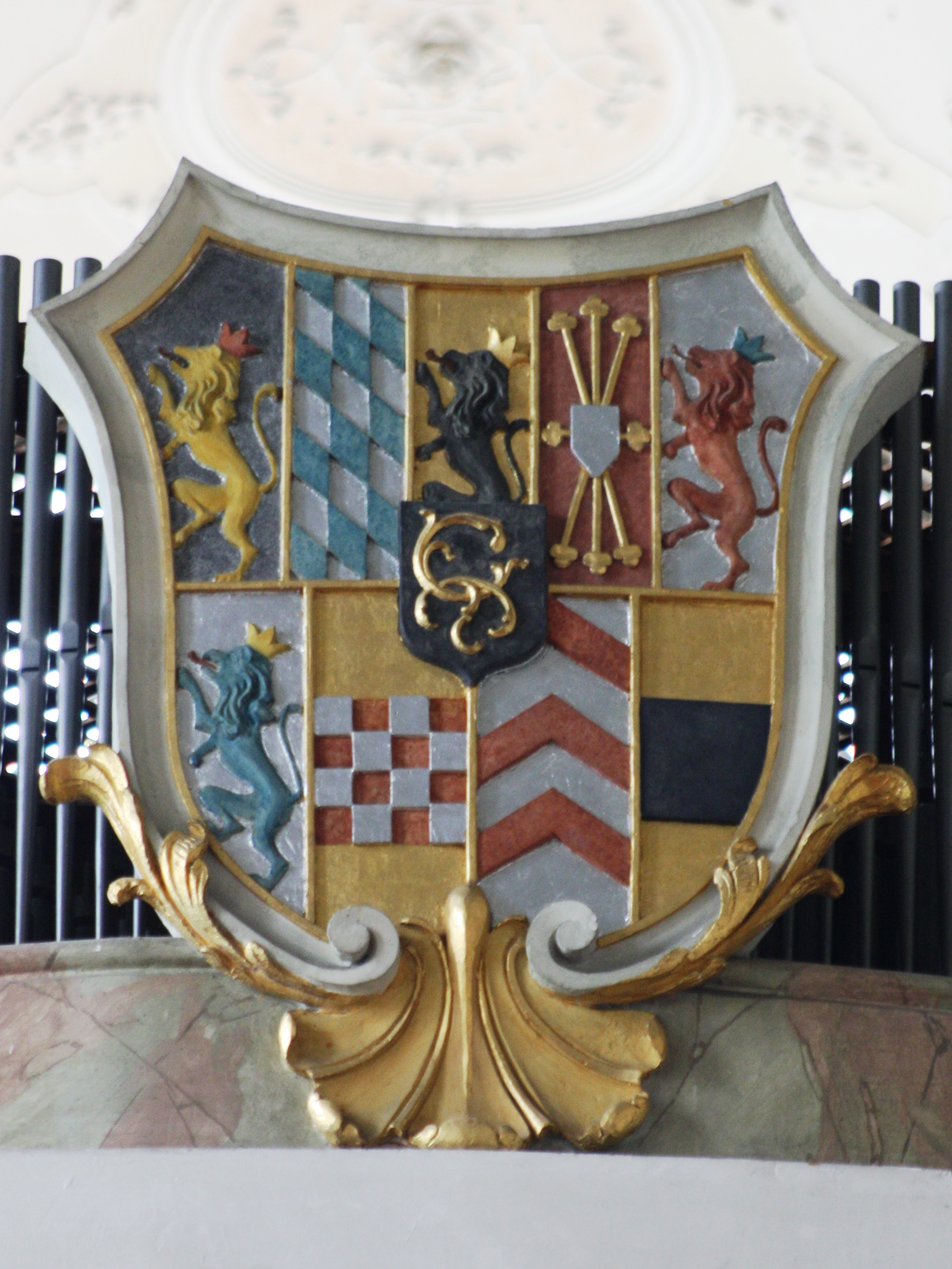 Mannheim, Germany. Palace church, coat of arms of the builder-owner Carl Philipp, prince-elector of Palatinate. It shows his possessions: Palatinate, House of Wittelsbach, Jülich, Cleves, Berg, Veldenz, Mark, Ravensberg, Moers